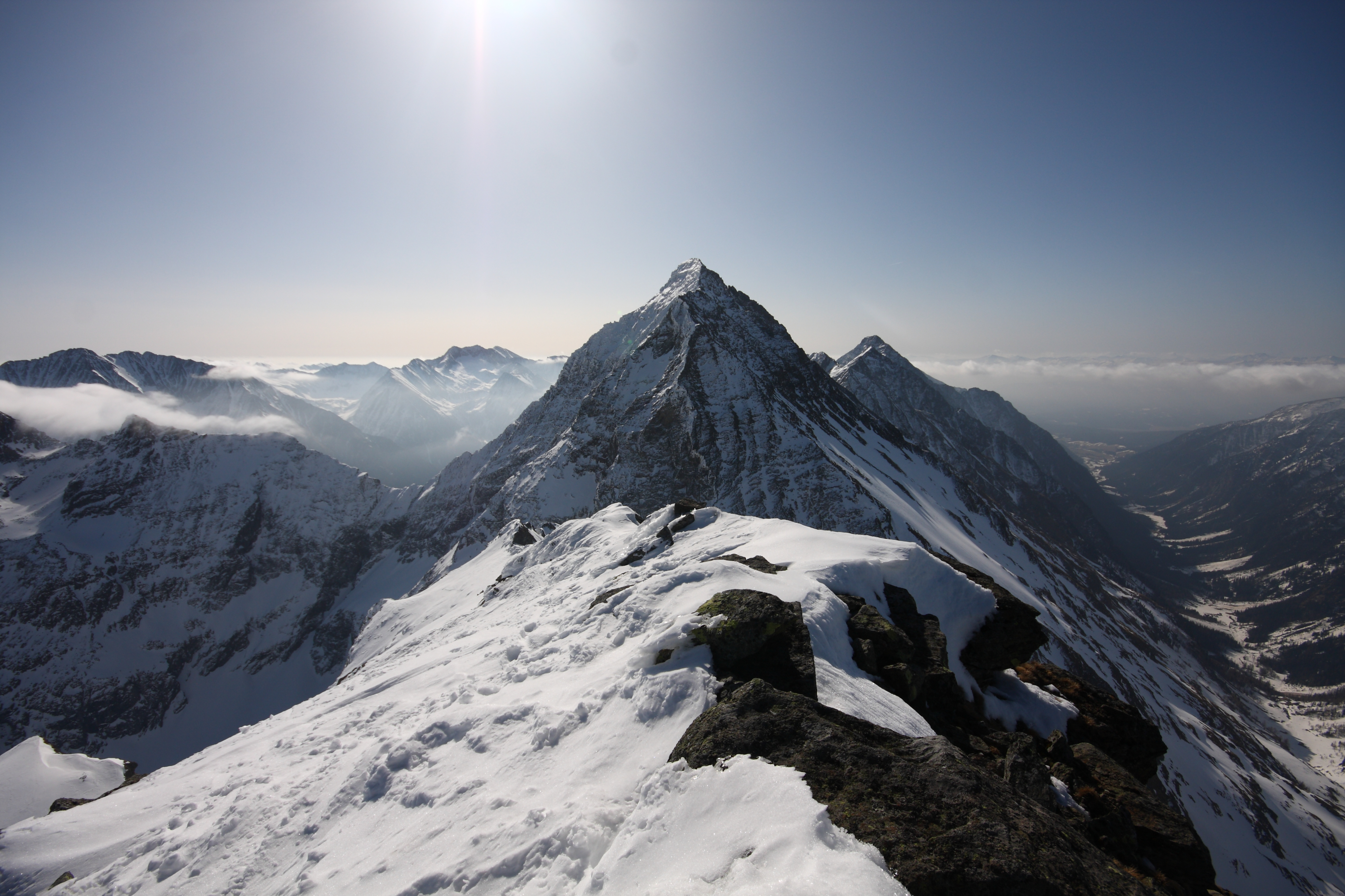 Hochgolling, Styria